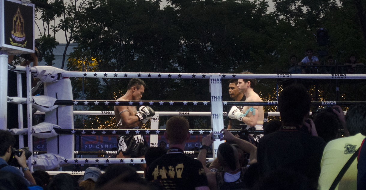 Iquezang vs Angelo